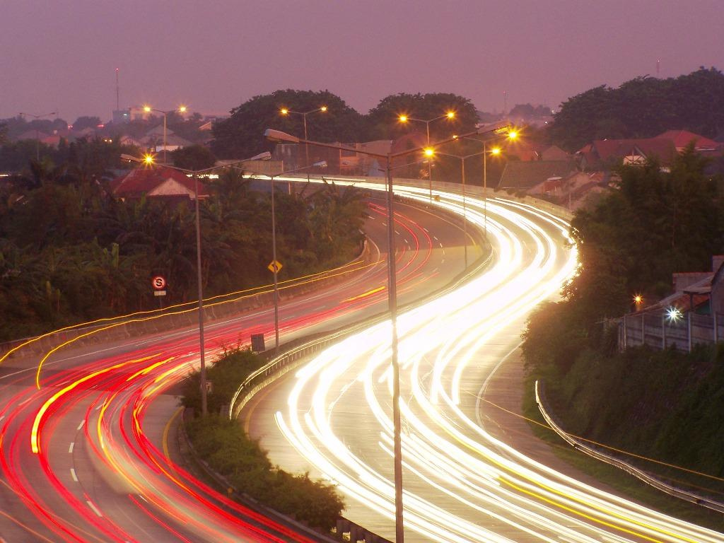 Bintaro-BSD Toll Road at Dusk